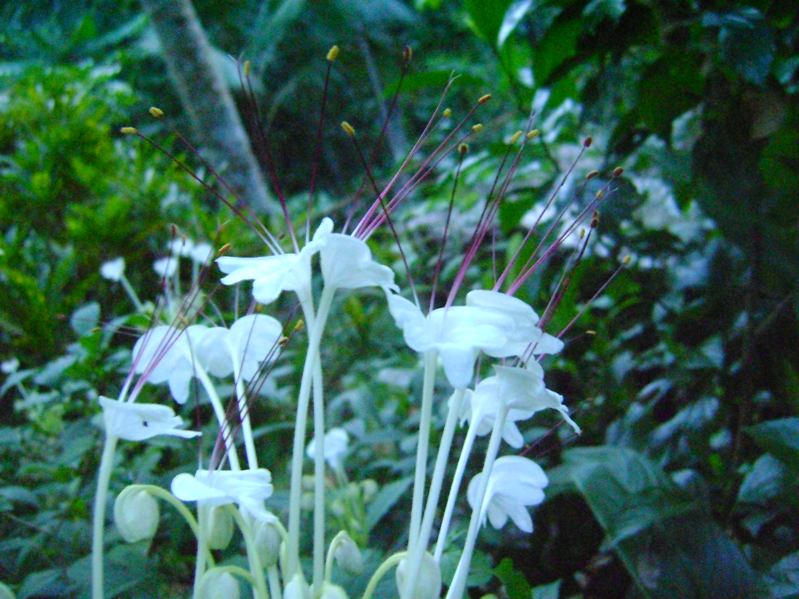 flowers